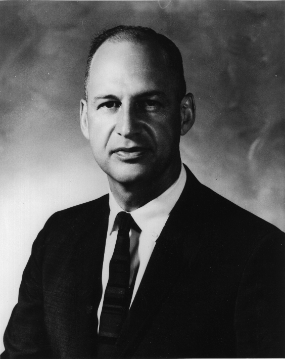 George M. Low, the NASA administrator for the Apollo Program.